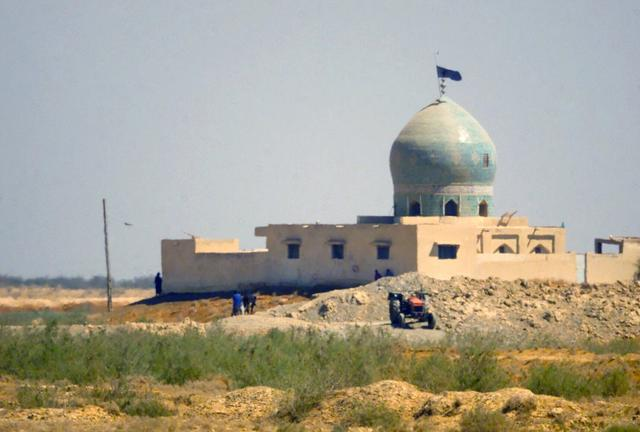 Mosque in Al Kut, Iraq. The Al-Uqaab, the black flag of the Prophet, waves at the peak of a small mosque near Al Kut., Al Kut.